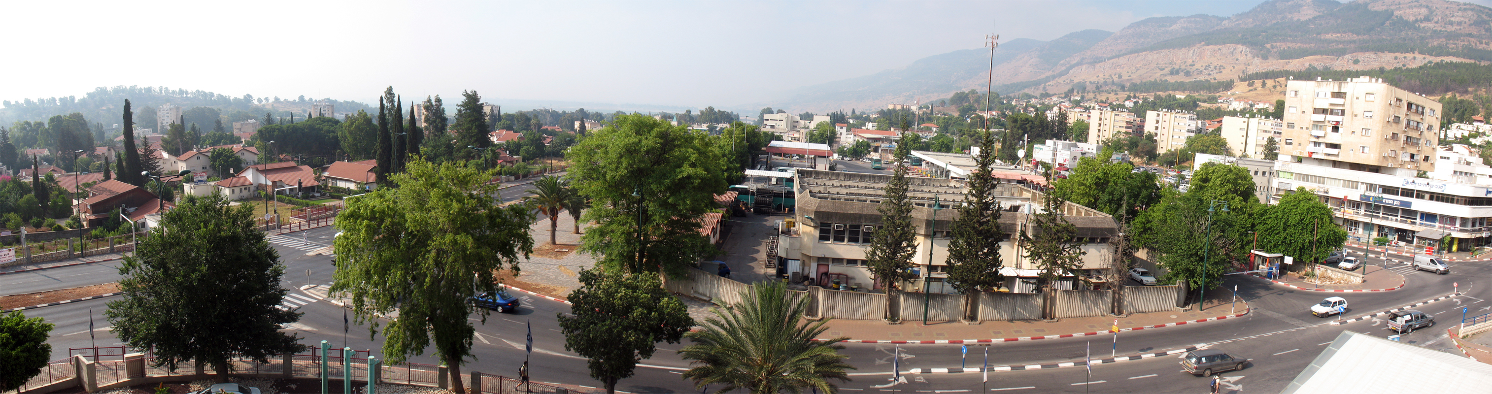 Panorama of Kiryat Shmona, as seen from Beit HaHayal in the city